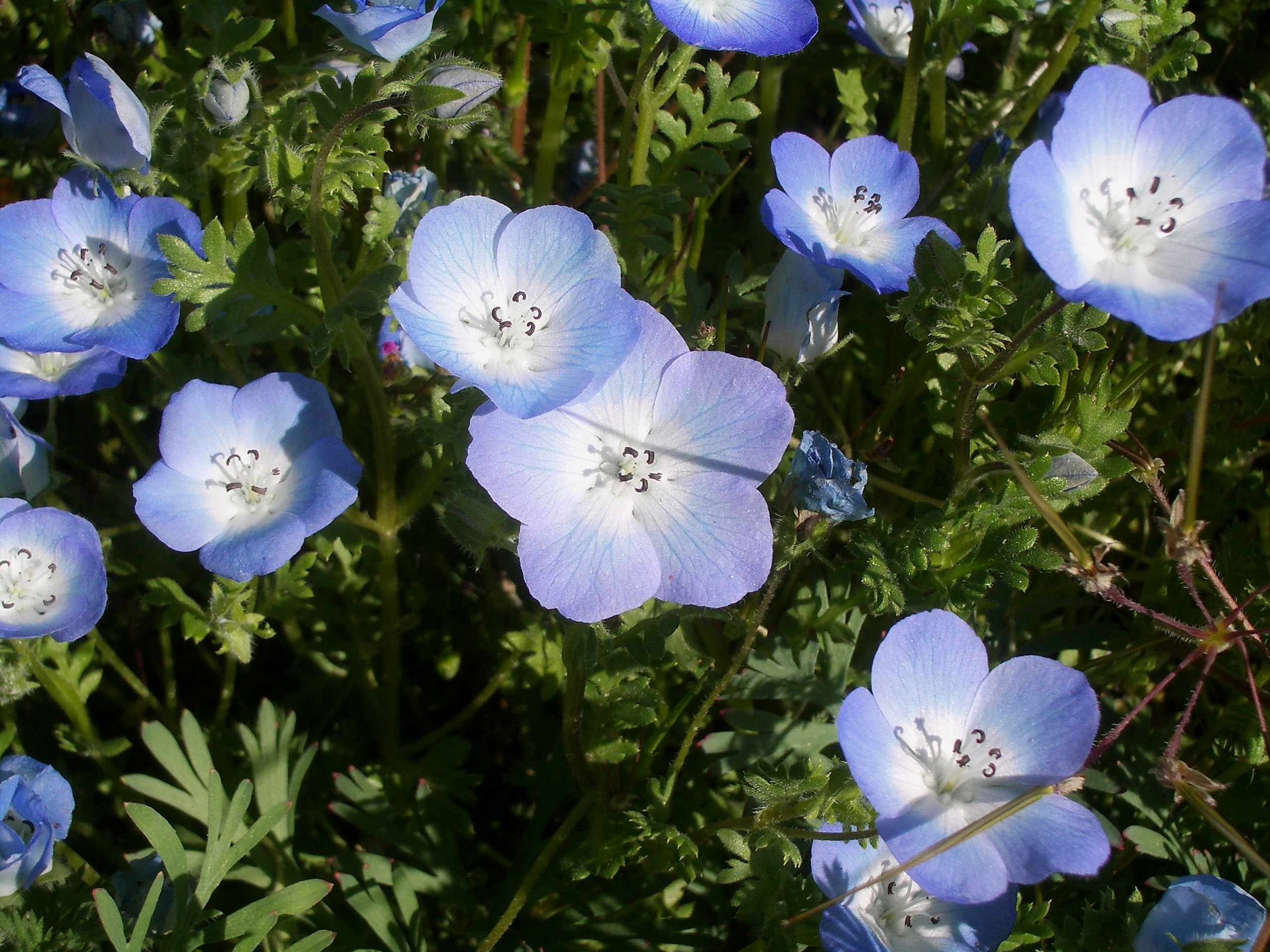 Photograph of Baby Blue Eyes (Nemophila menziesii)